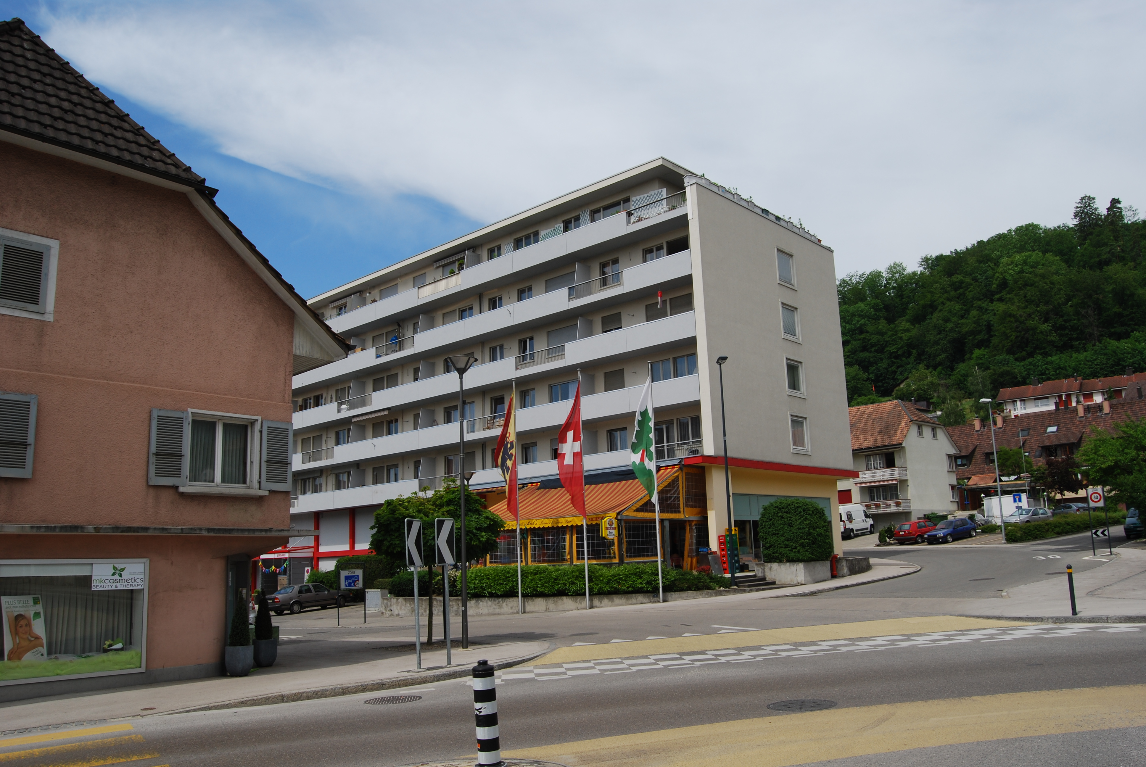 Lengnau, canton of Bern, SwitzerlandEsperanto: Lengnau, Kantono Berno, Svislando